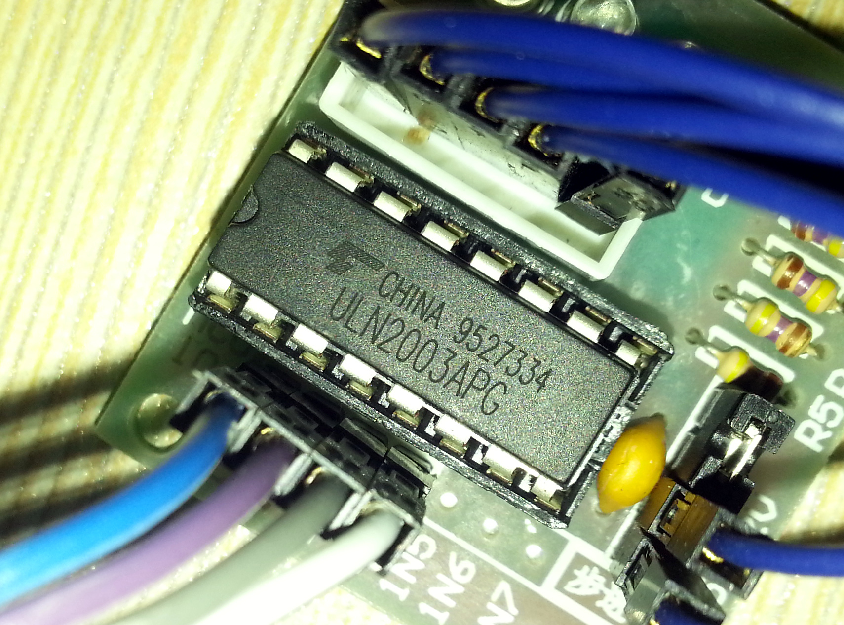 A ULN2003A in PDIP being a primary part in the stepper motor driver. The IC was made in China.